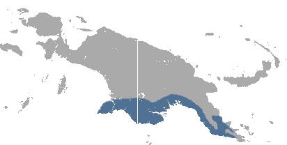 Grey Dorcopsis (Dorcopsis luctuosa) range